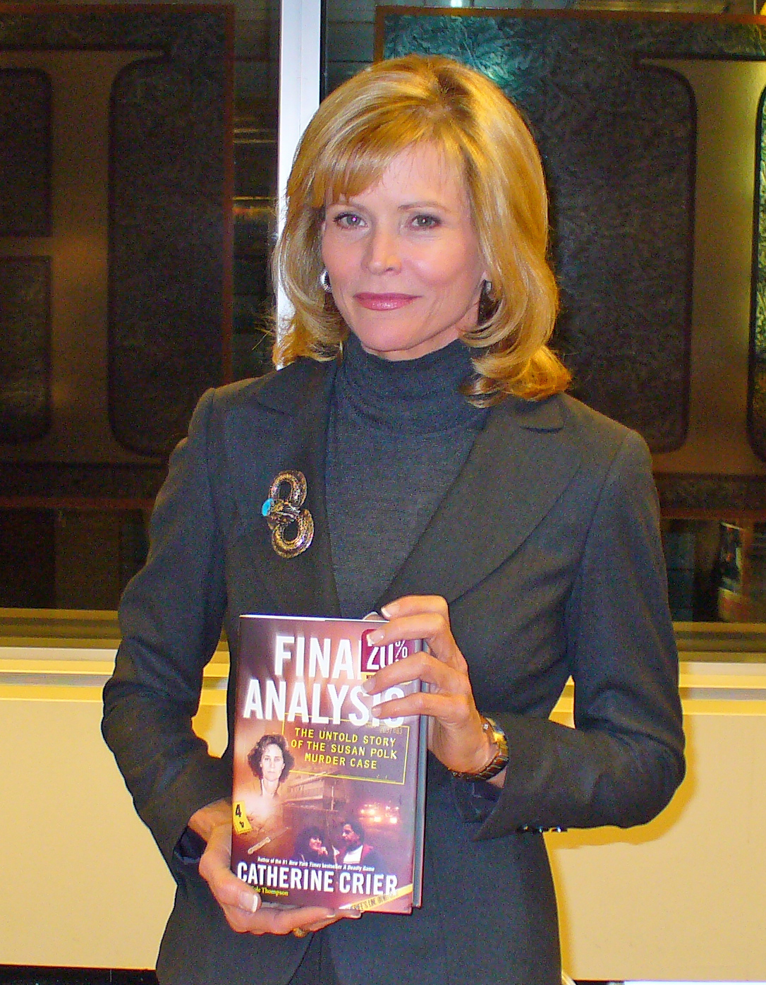 Catherine Crier in New York City